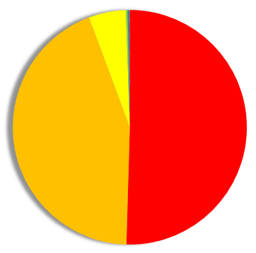 Expressed as a pie chart in the Tokyo gubernatorial election in 1975, the number of votes for each candidate.